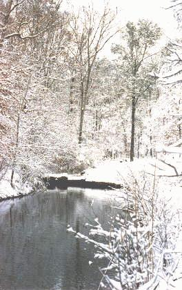 A rare snowstorm paints a winter scene. Near Lake Tuscaloosa, Alabama.